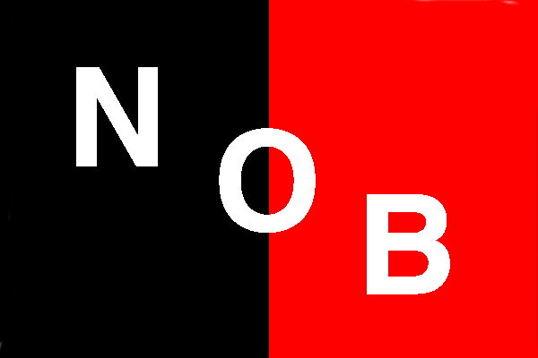 Colores Club Atlético Newell's Old Boys de Rosario, Argentina